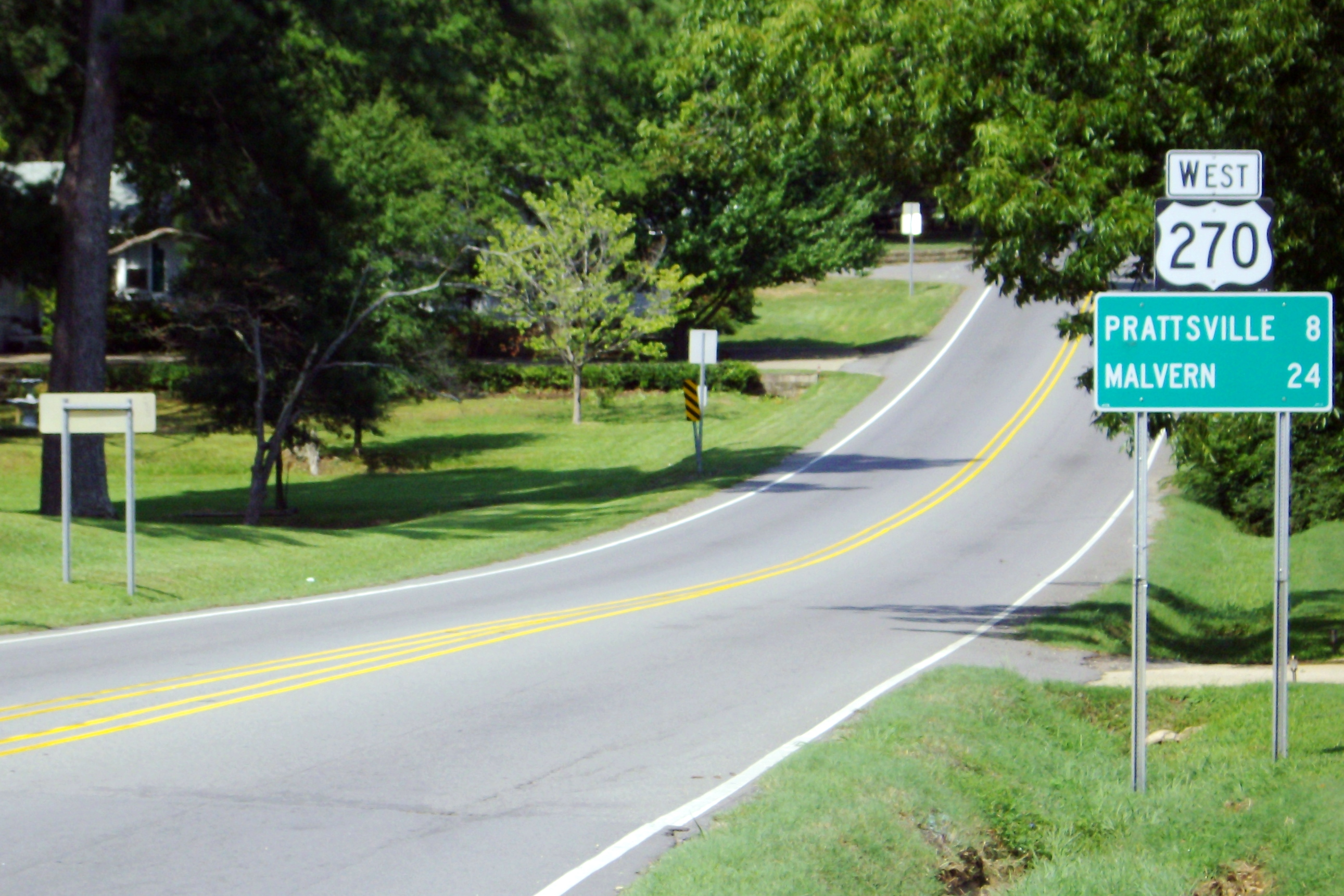 US 270 in heads west in Sheridan, Arkansas near the Grant County Courthouse